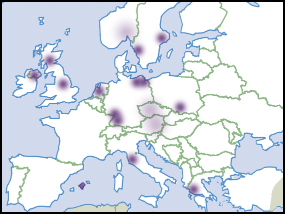 Hawaiia minuscula (Binney, 1841). Distributional range in Europe, scientific state of knowledge of 2012. Source description in English. Light colour indicated rare occurrences or regions where the species could eventually be expected to occur. Dark colour indicated relatively reliable occurrences, as well as regions where the species was expected to occur, and where the species was not known to be extremely rare. Dark colour indications were not necessarily based on published records. Species summary in AnimalBase